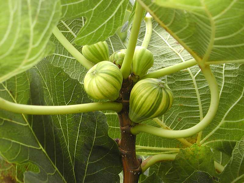 Panaché figs (Ficus carica)